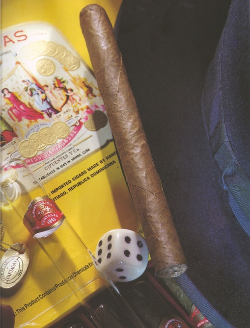 Fotografias para el libro "El mundo de los puros"